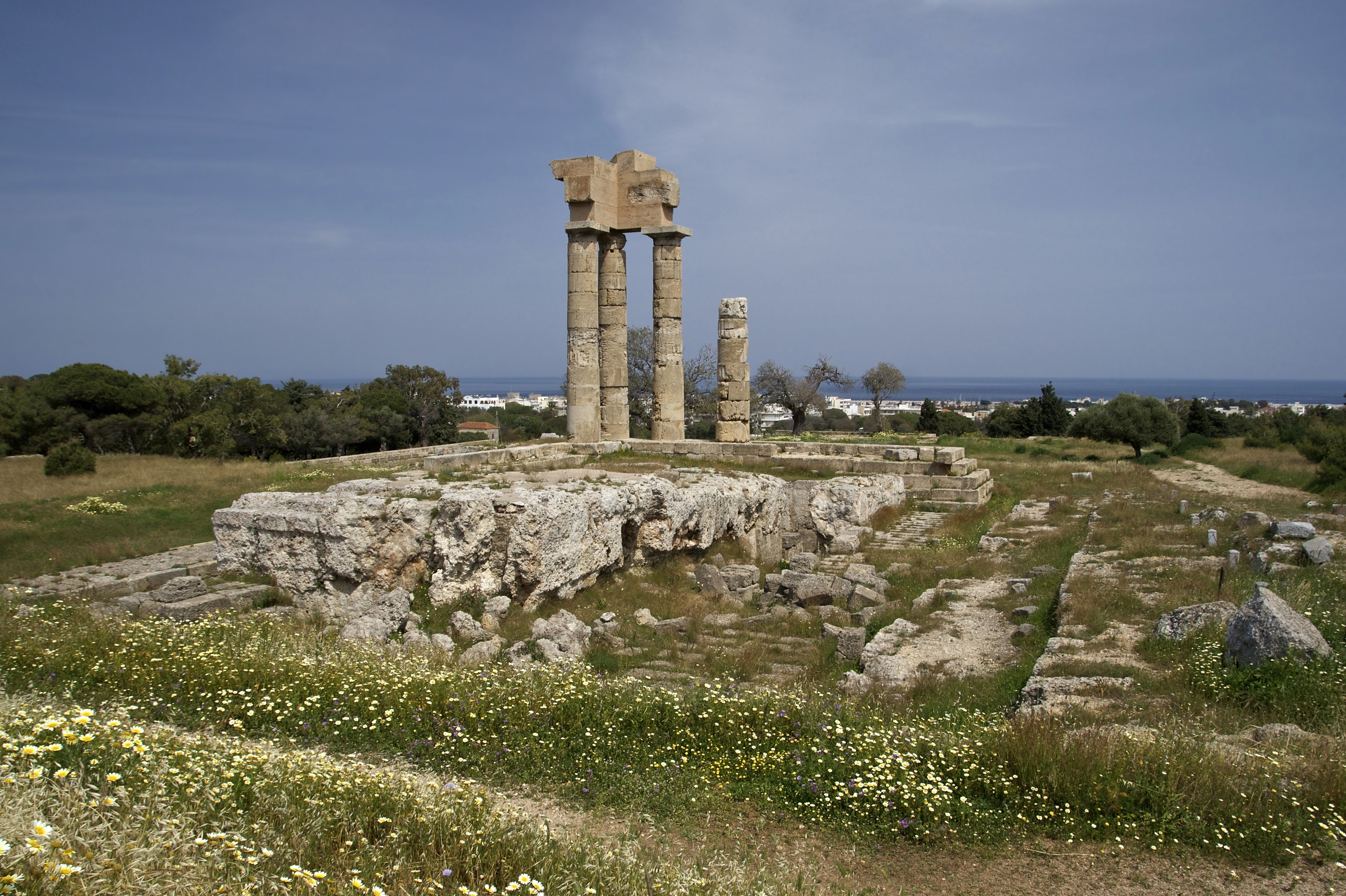 The ruins of the temple of Apollon, Acropolis of Rhodes, island of Rhodes, Greece.